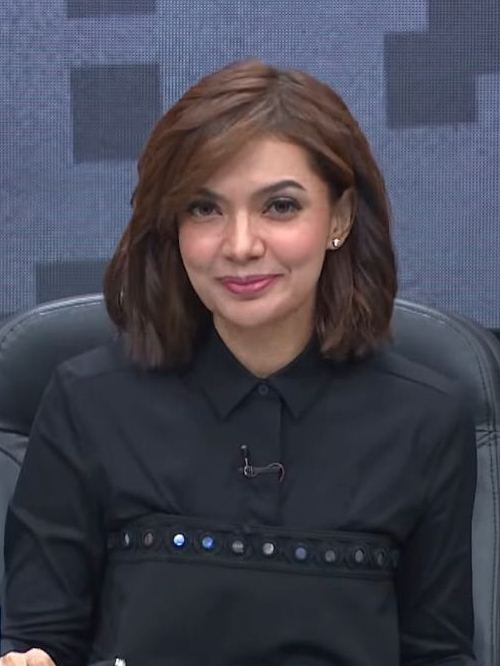 Najwa Shihab when hosting the Mata Najwa event on Trans7